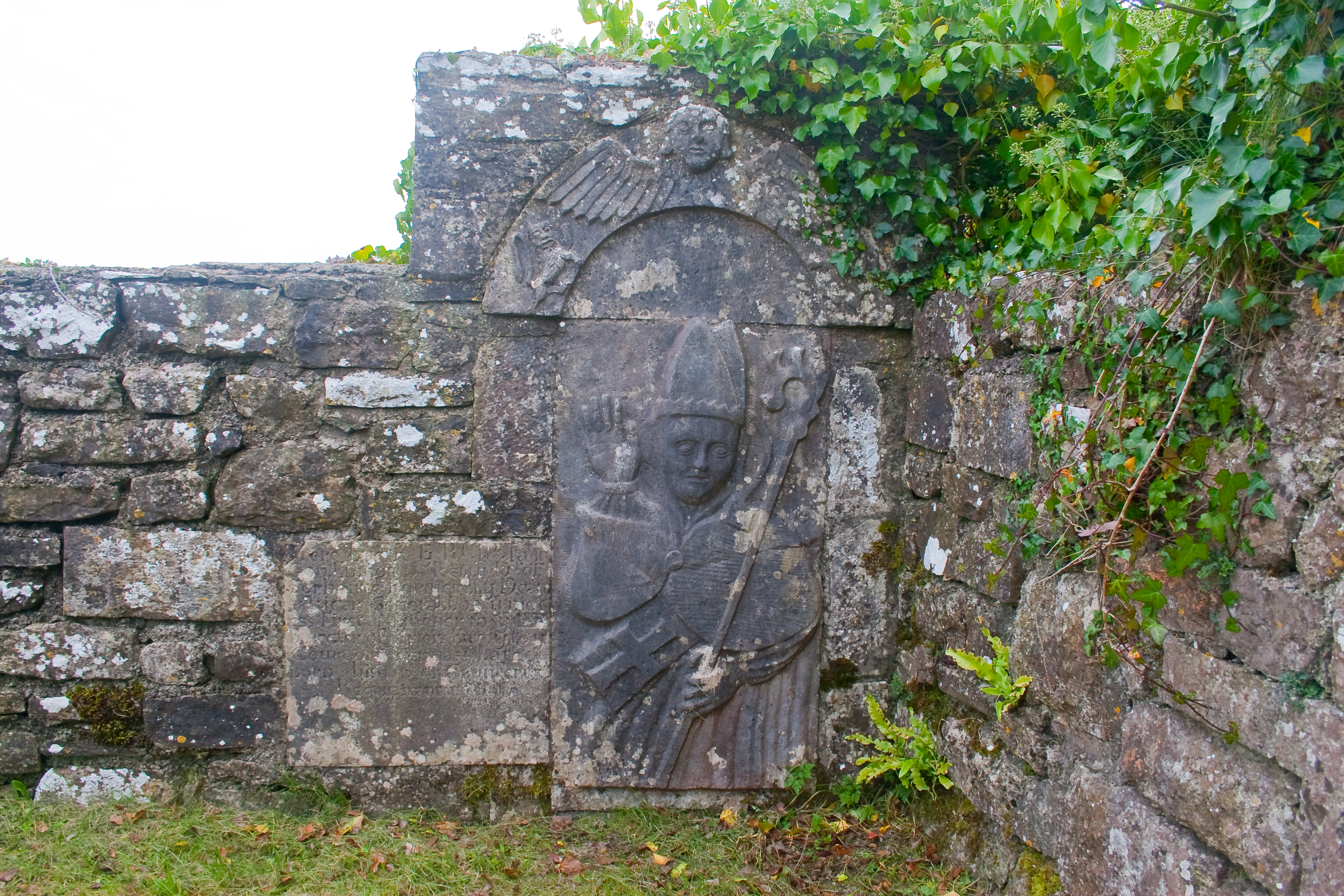 Clonkeenkerrill Friary, County Galway, Ireland South-east corner of the church along with a 18th-century carved image of a bishop. The lancet arched window of the east gable fell in 1983. (See Archaeological Inventory of County Galway, Volume II – North Galway, entry 3339 on p. 302.)